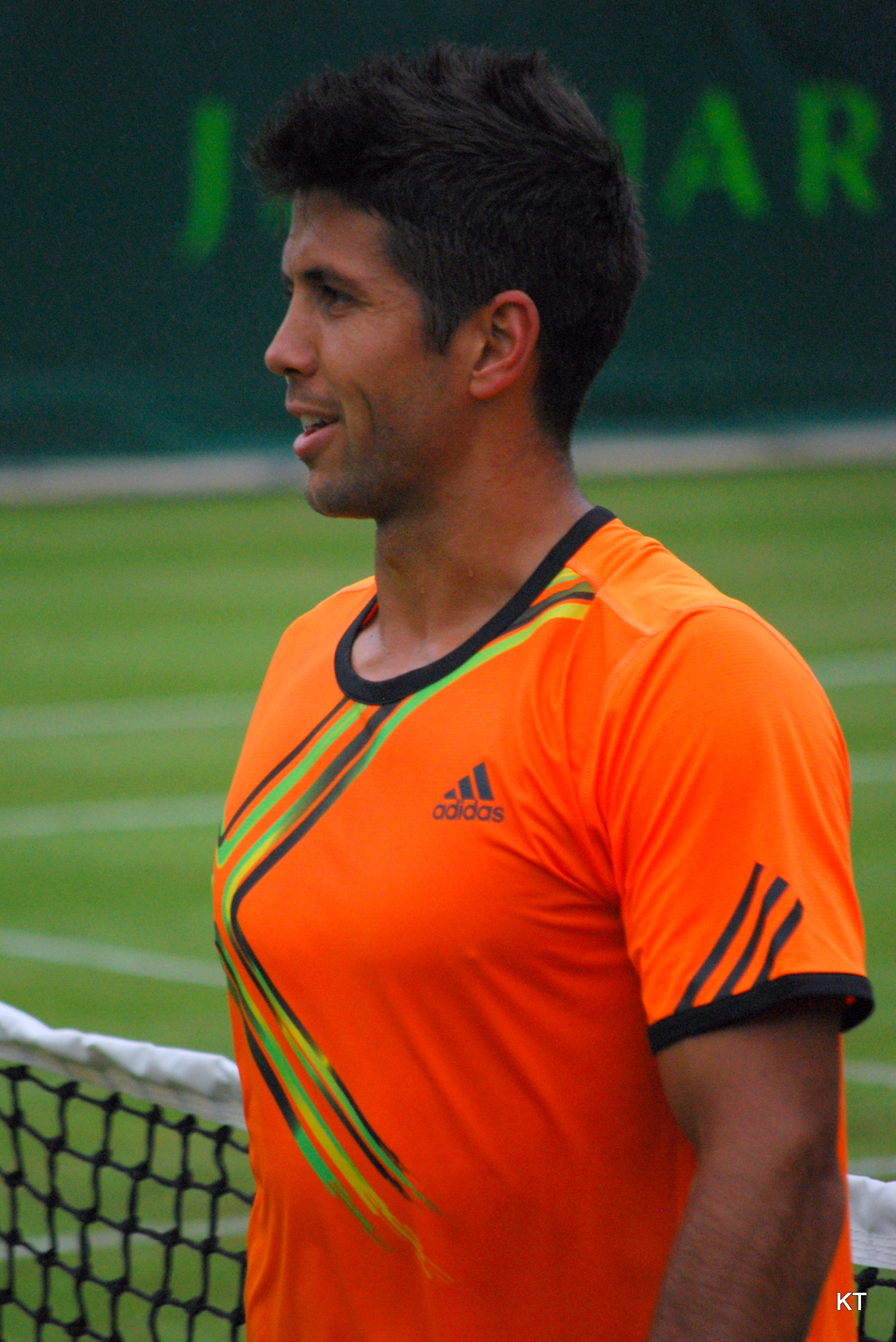 The Boodles, Stoke Park, 2011.